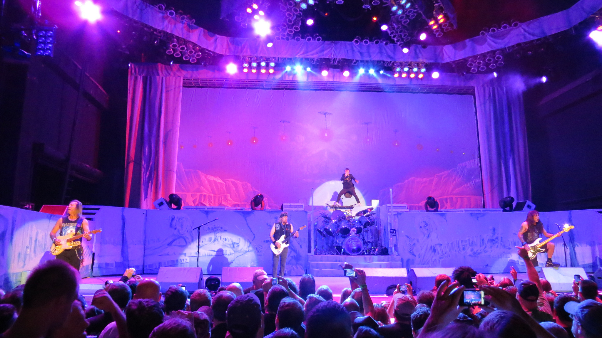 Iron Maiden performing live in Denver on 13 August 2012